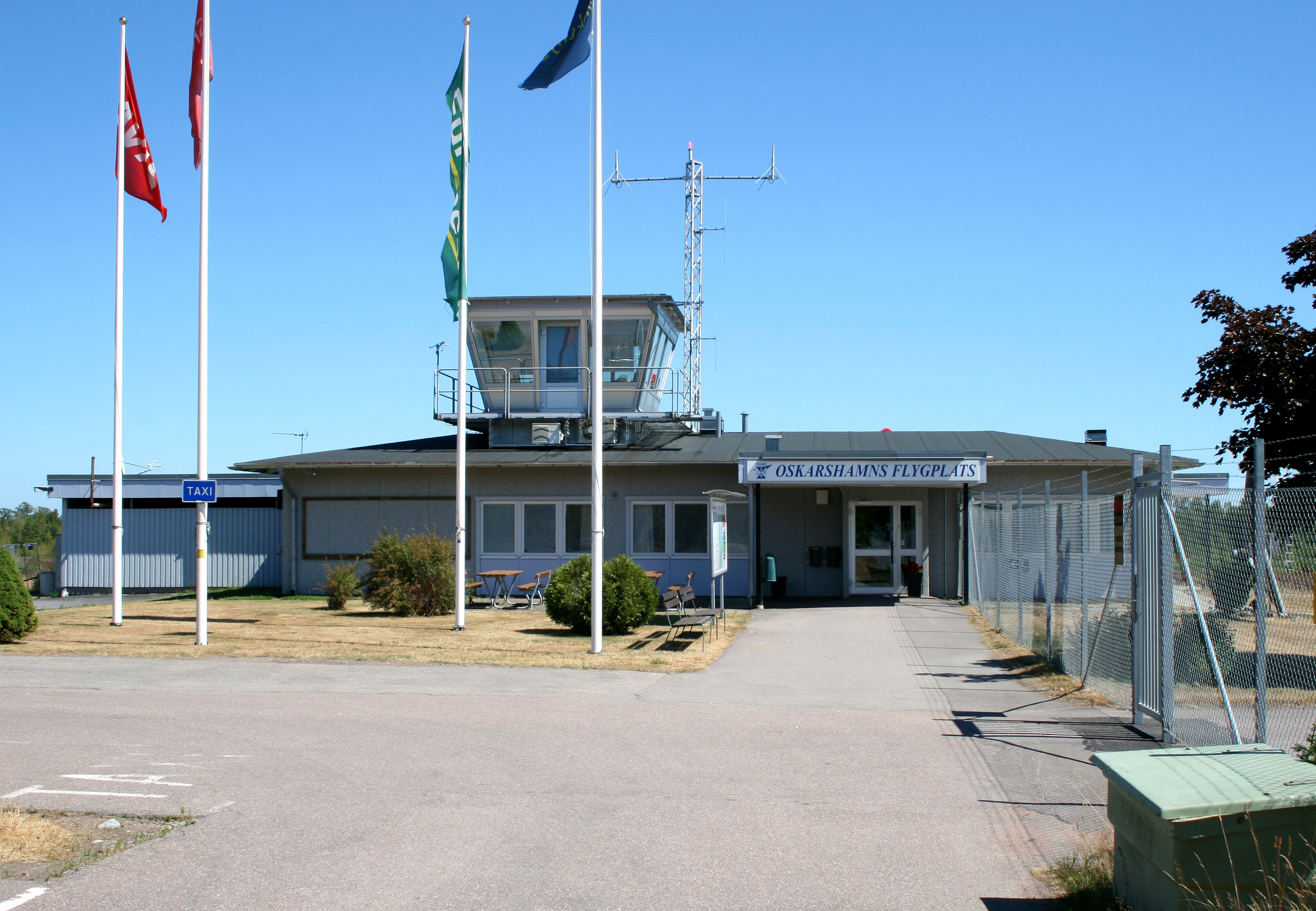 The terminal building at Oskarshamn Airport